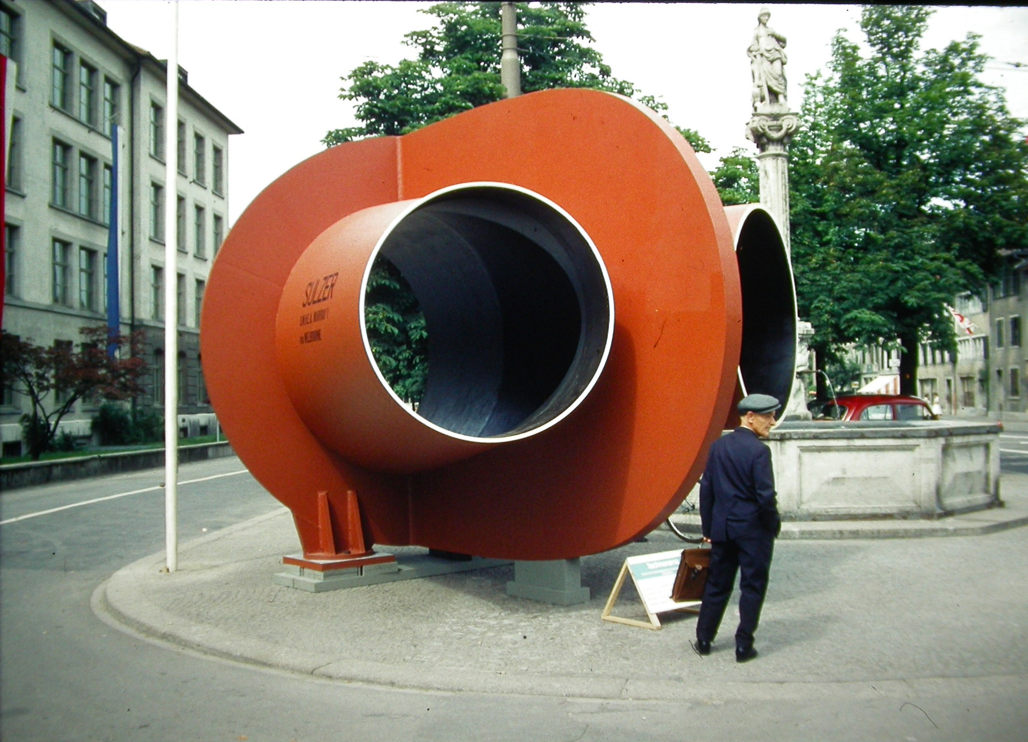 Winterthur 1964 during the 700 years jubilee of the city